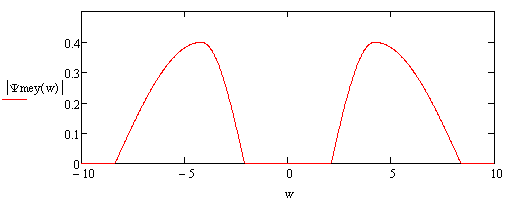 spectrum of the Meyer wavelet (numerically computed)